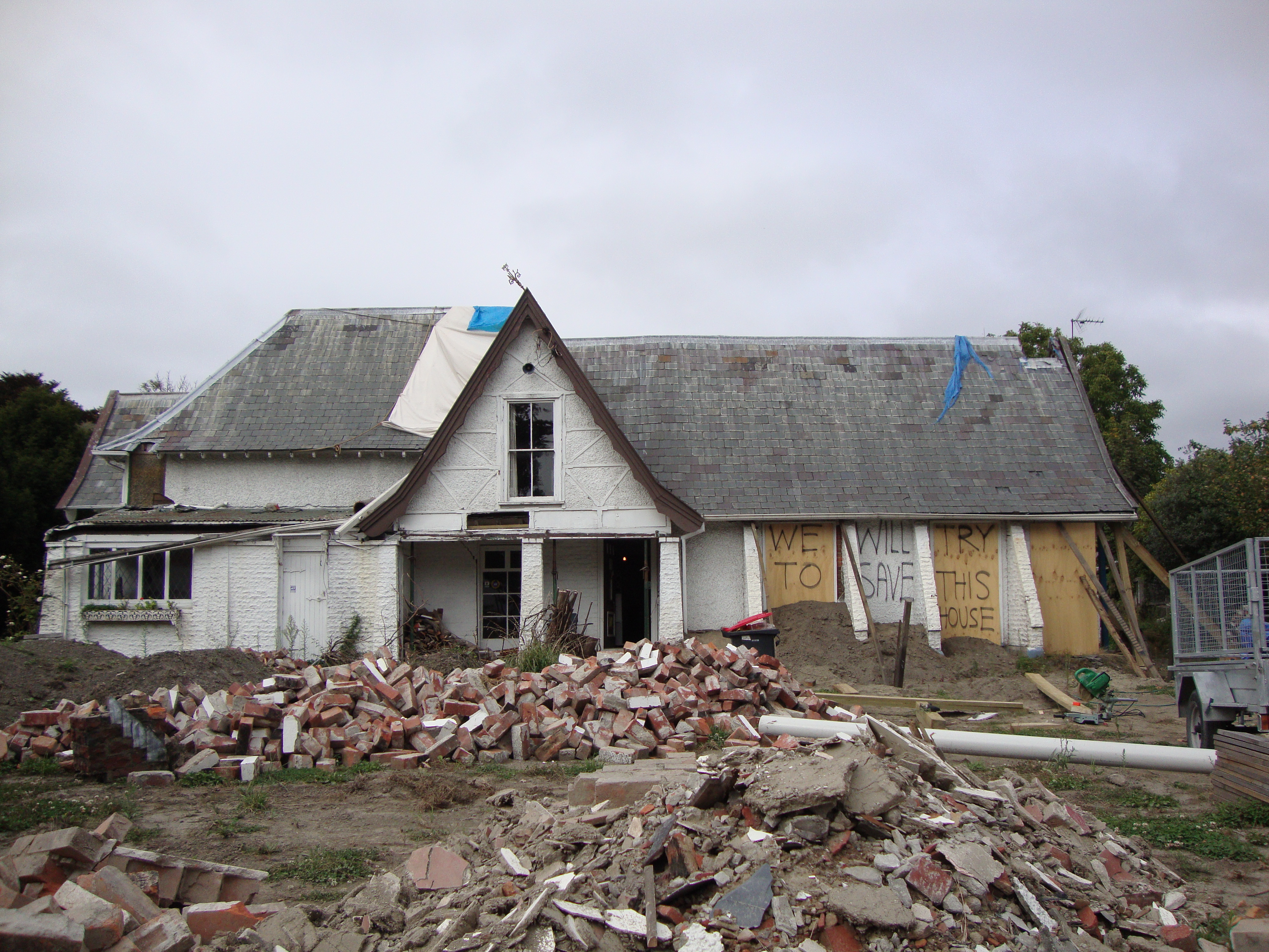 Englefield after the 2011 Christchurch earthquake. As can be seen by the large message painted onto the house, the owners intend to rebuild it.